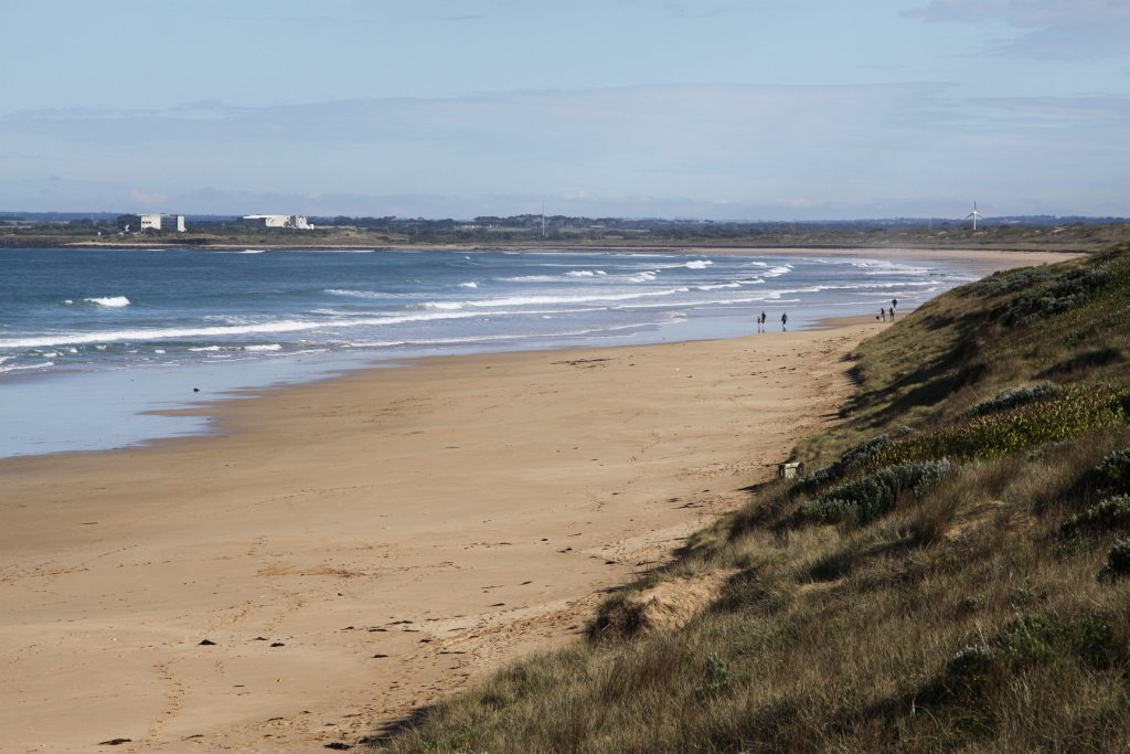 Western end of Thirteenth Beach, Victoria, Australia. Looking towards the sewage treatment plant and wind generator at Black Rock. The township of Breamlea is a bit further along.